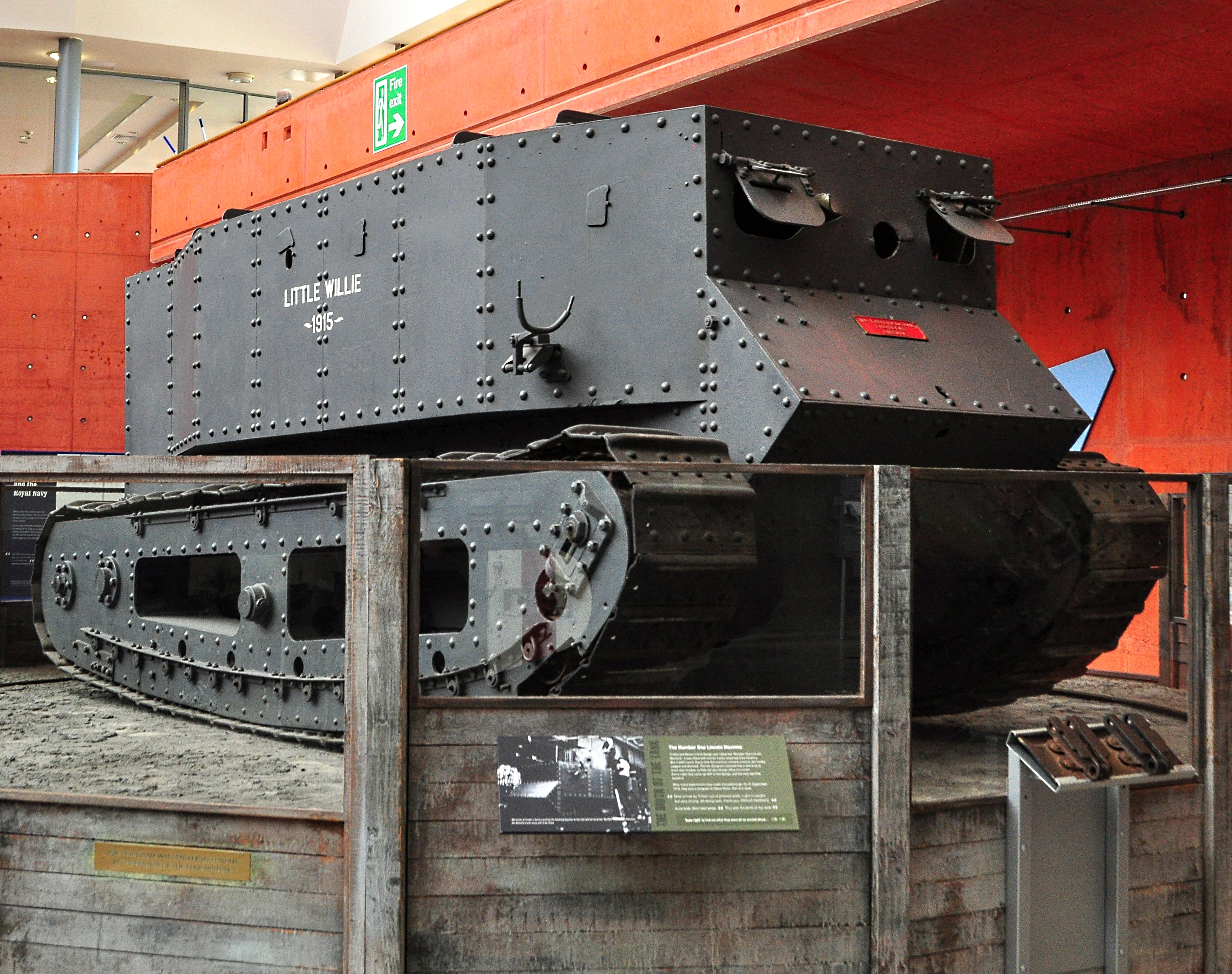 Little Willie at the Tank Museum, Bovington, on a revolving pedestal